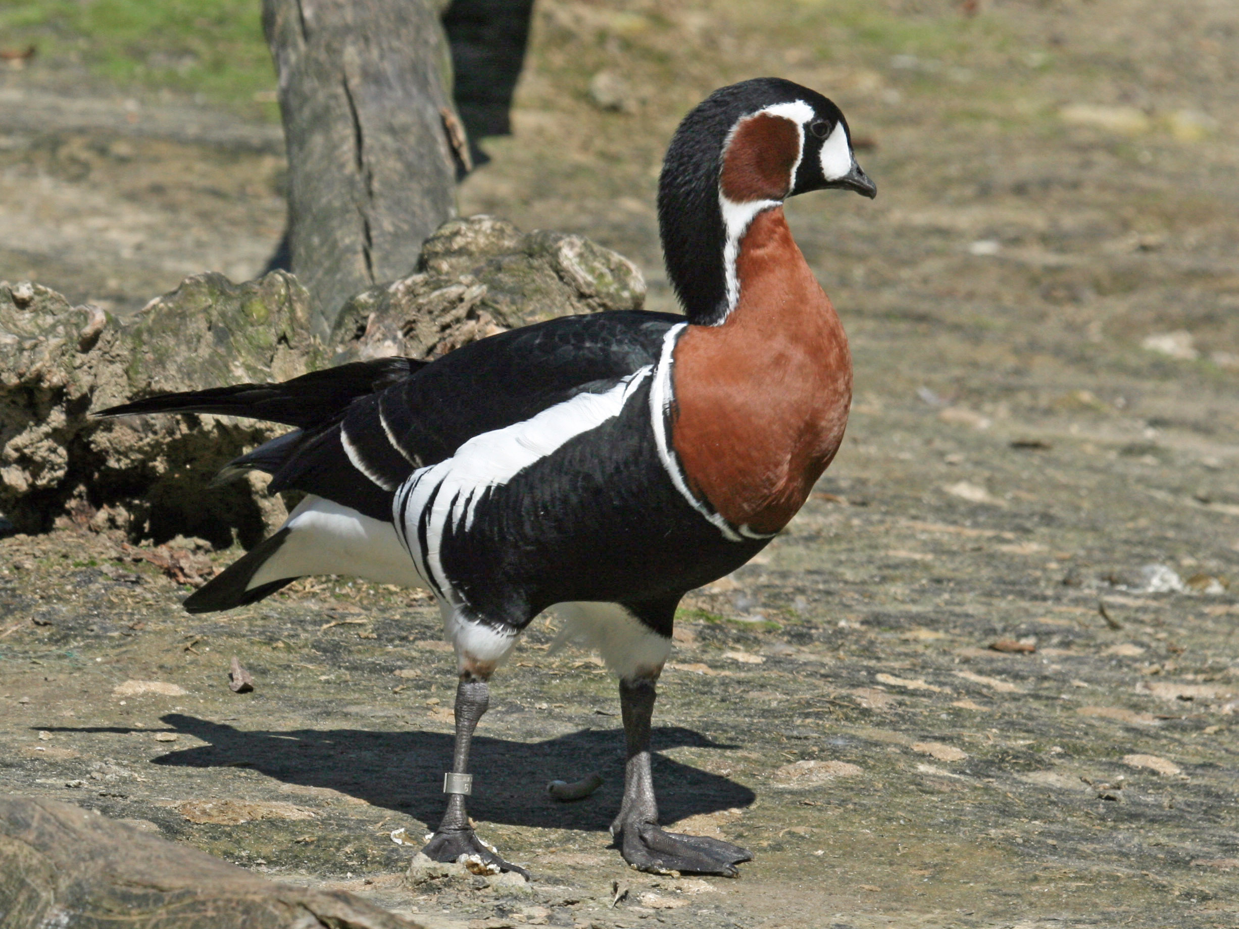 Red-breasted Goose (Branta ruficollis) at Sylvan Heights Waterfowl Park in Scotland Neck, North Carolina.